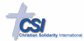 CSI Logo